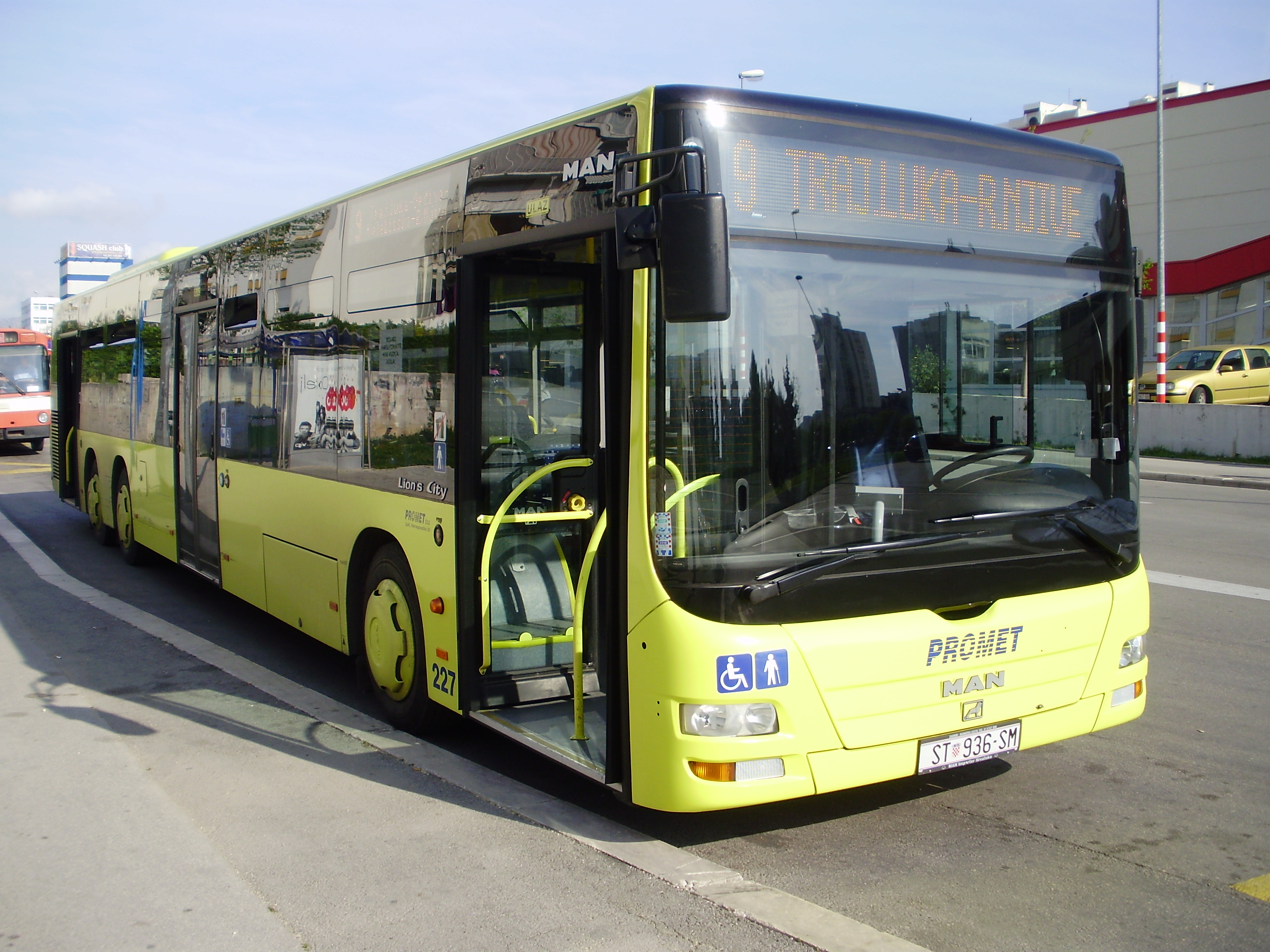 MAN NL 313-15 Lion's City LL bus on line number 9 in Split, Croatia. Year built 2007.